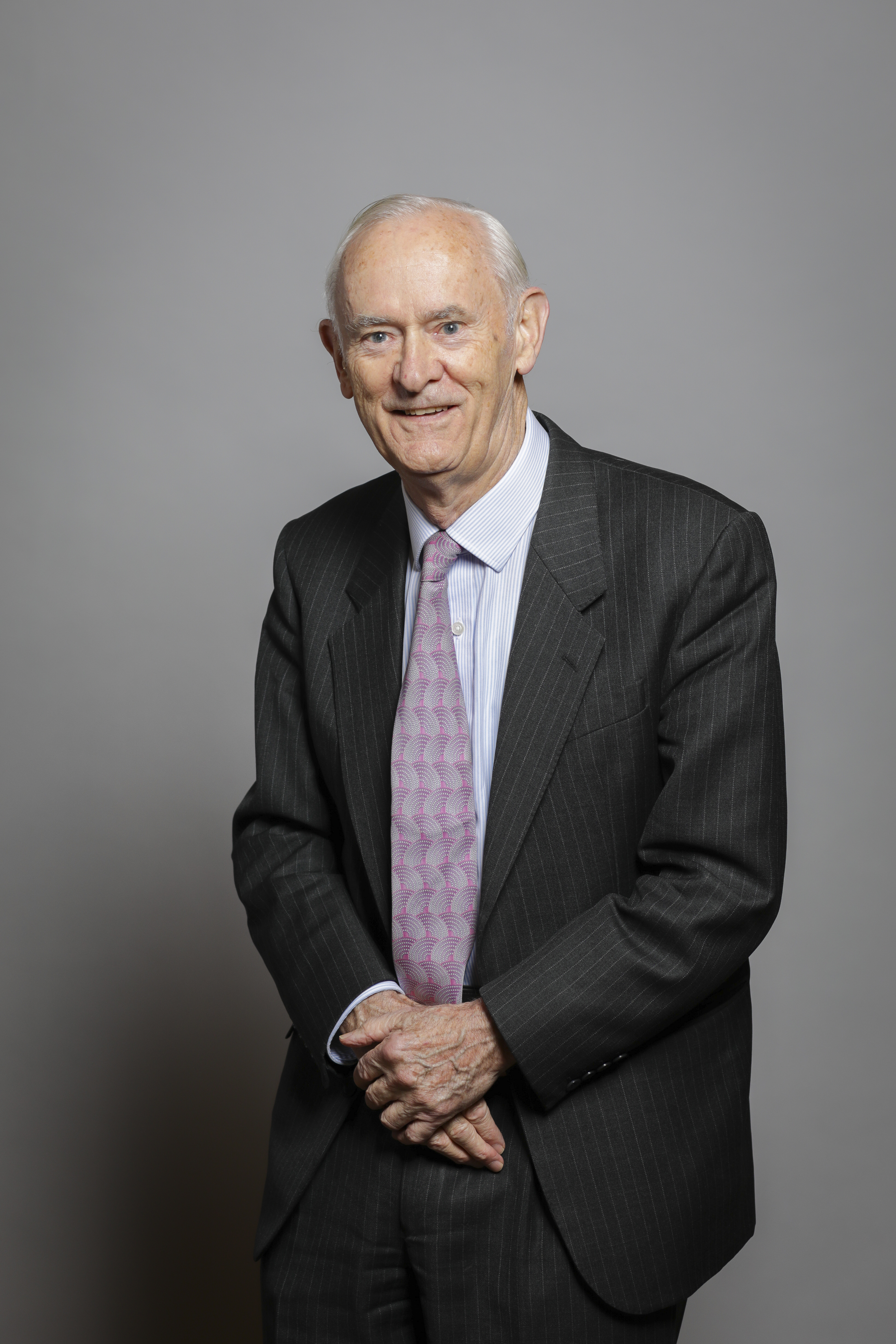 Official portrait of Lord Green of Deddington Full sized portrait of Lord Green of Deddington